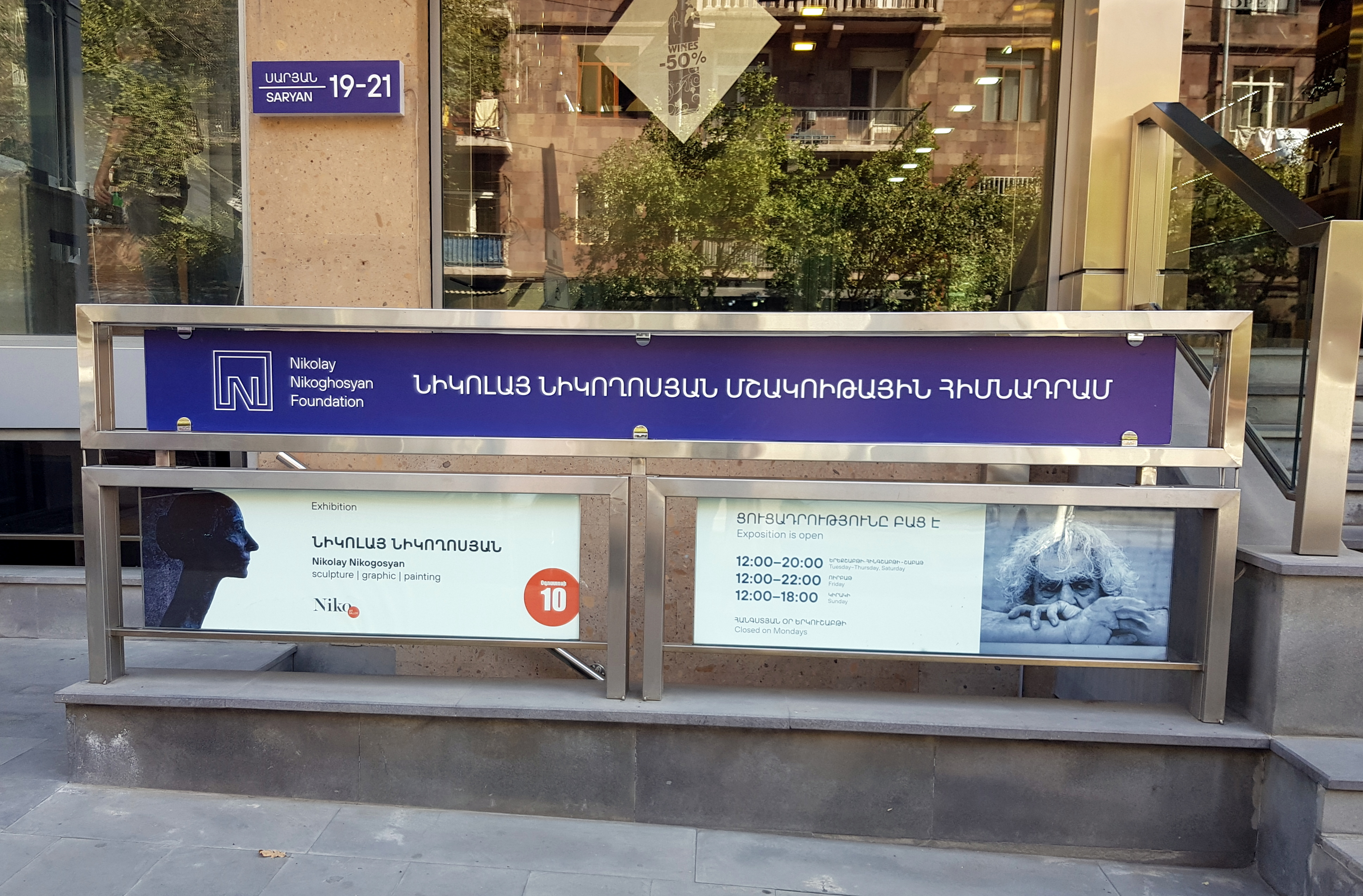 Nikoghosyan Cultural Foundation